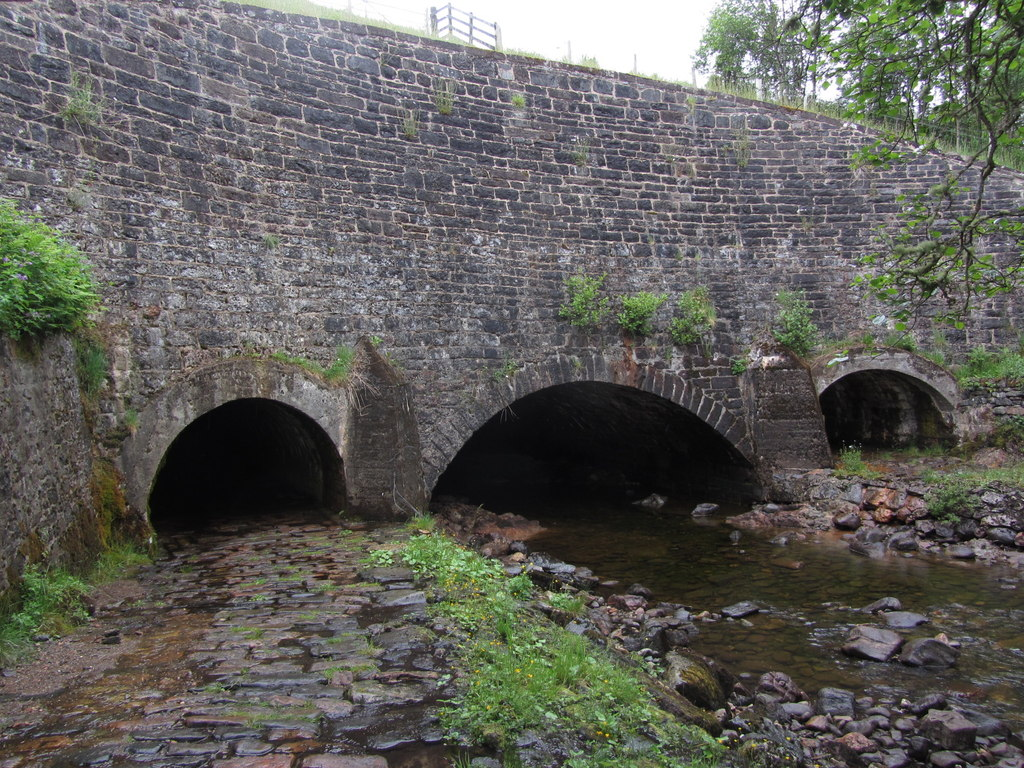 Glen Loy Aqueduct, Caledonain Canal